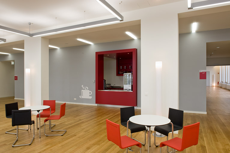 student lounge